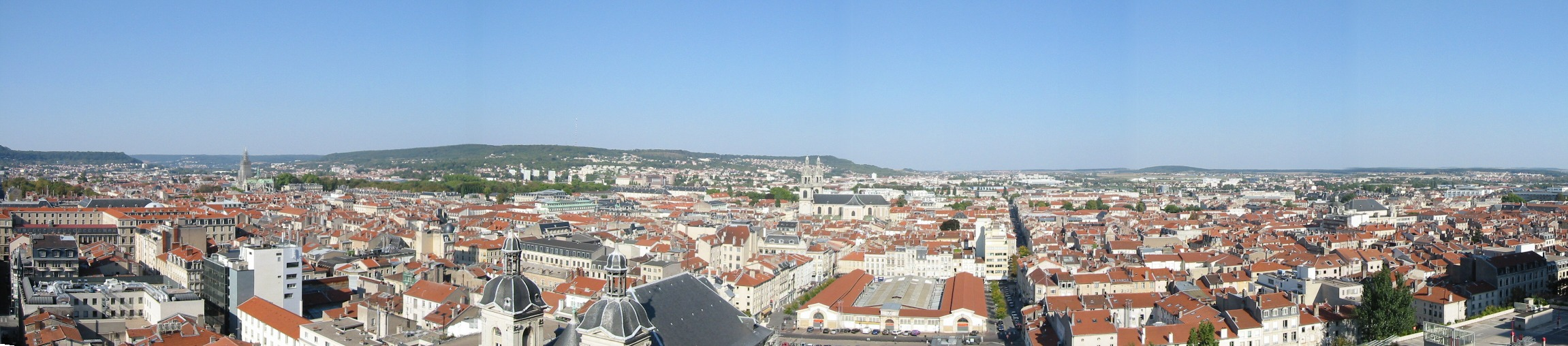 Landscape of city centre of Nancy